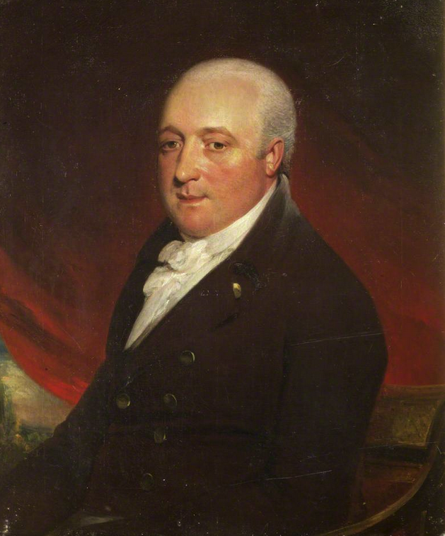 Edward Rolle Clayfield (1767–1825), a merchant and director of the Bristol Dock Company, of Bristol and of Brislington, Somerset, portrait by William Armfield Hobday (1771–1831) on display in Bristol Central Library, the property of Mr. Barry Williamson. Oil on canvas, 75 x 62 cm